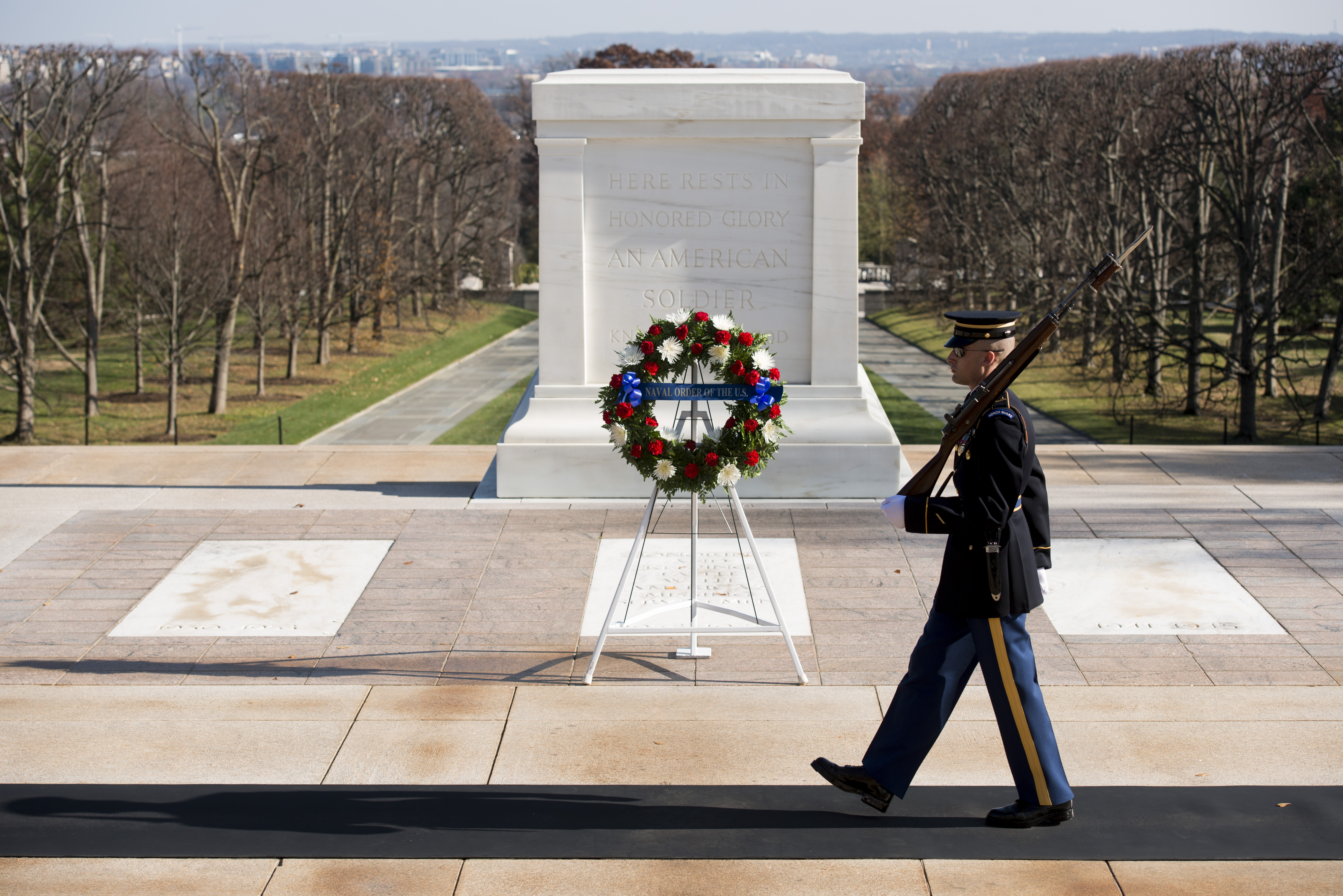 Representatives for the Naval Order of the United States lay a wreath at the Tomb of the Unknown Soldier at Arlington National Cemetery, Dec. 7, 2016, in Arlington, Va. The wreath marked the 75th anniversary of the attack on Pearl Harbor. (U.S. Army photo by Rachel Larue/Arlington National Cemetery/released)